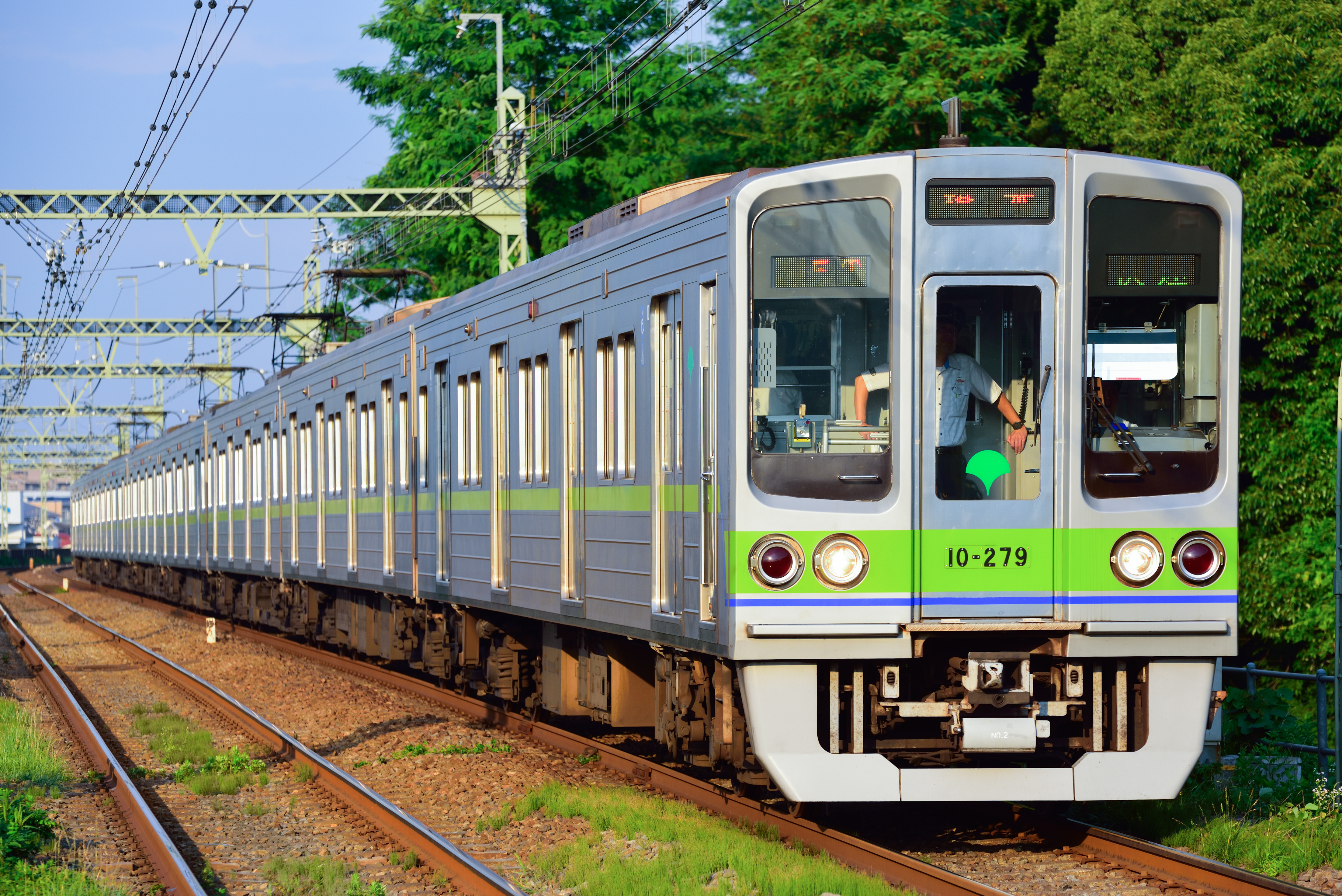 Toei Shinjuku Line 10-000 series 8th-batch EMU set 10-270 at Keiō-Yomiuri-Land Station in Tokyo